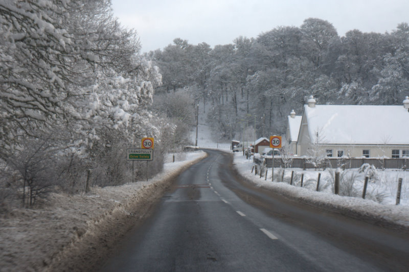 Entering Grandtully